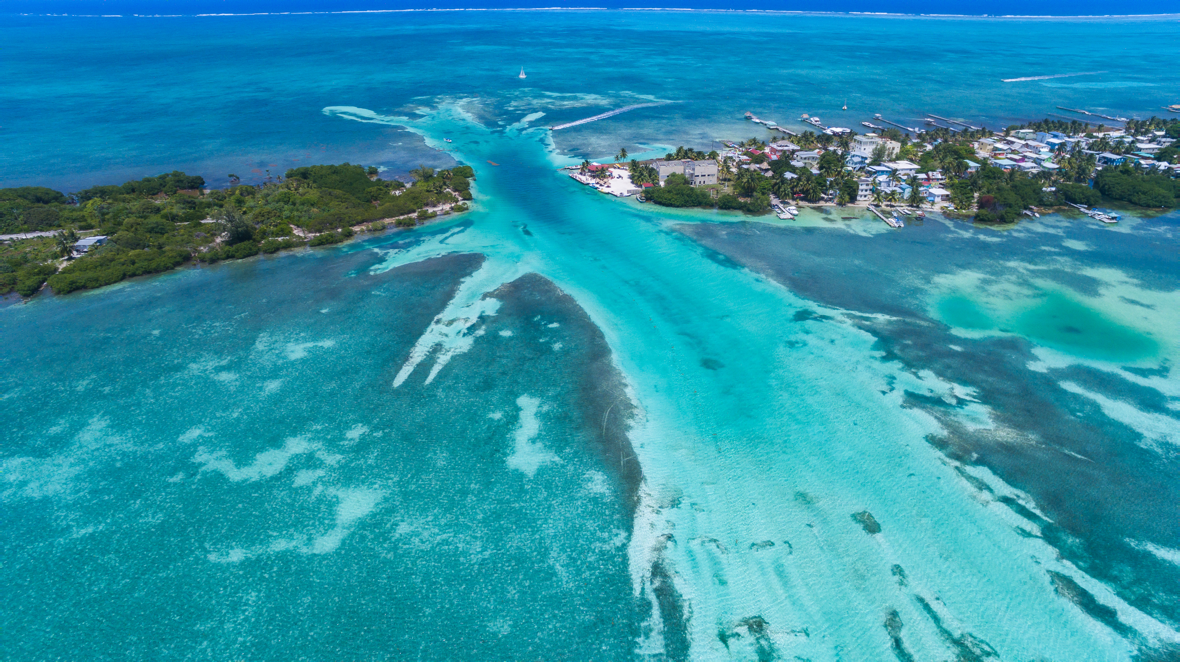 Caye Caulker is located in the beautiful world heritage Belize Barrier Reef.